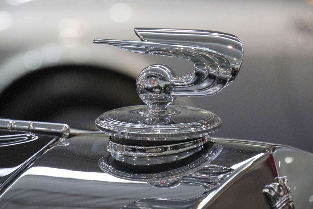 1937 Horch 853 Cabrio_IMG_2677